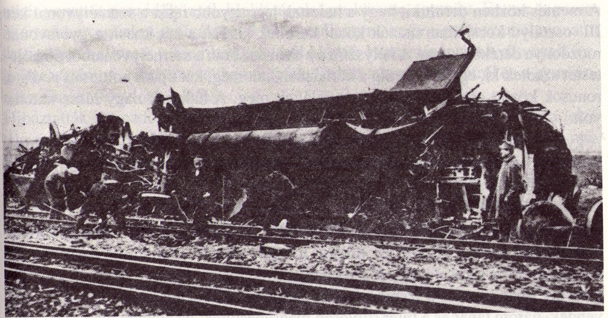 Broken railcars at the Herceghalom railway accident's site